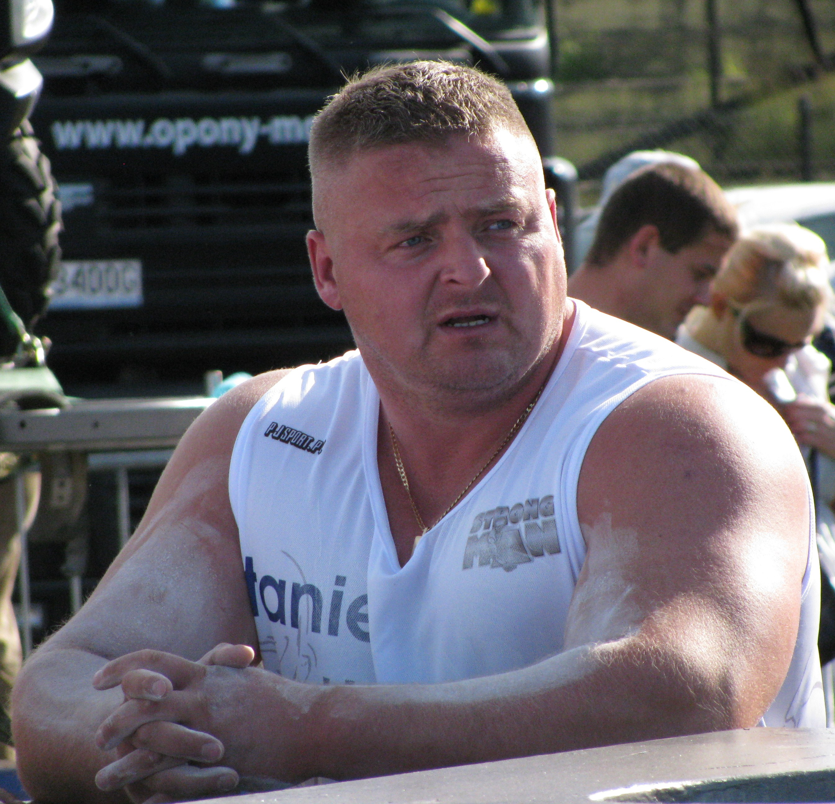 Slawomir Toczek - a strength athlete from Poland.